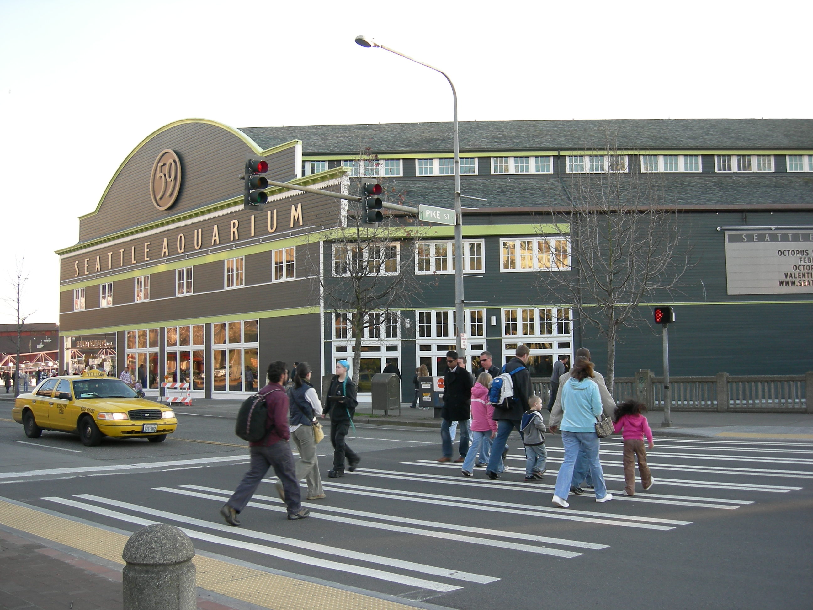 Seattle Aquarium, Pier 59, Seattle, Washington. The building has city landmark status.